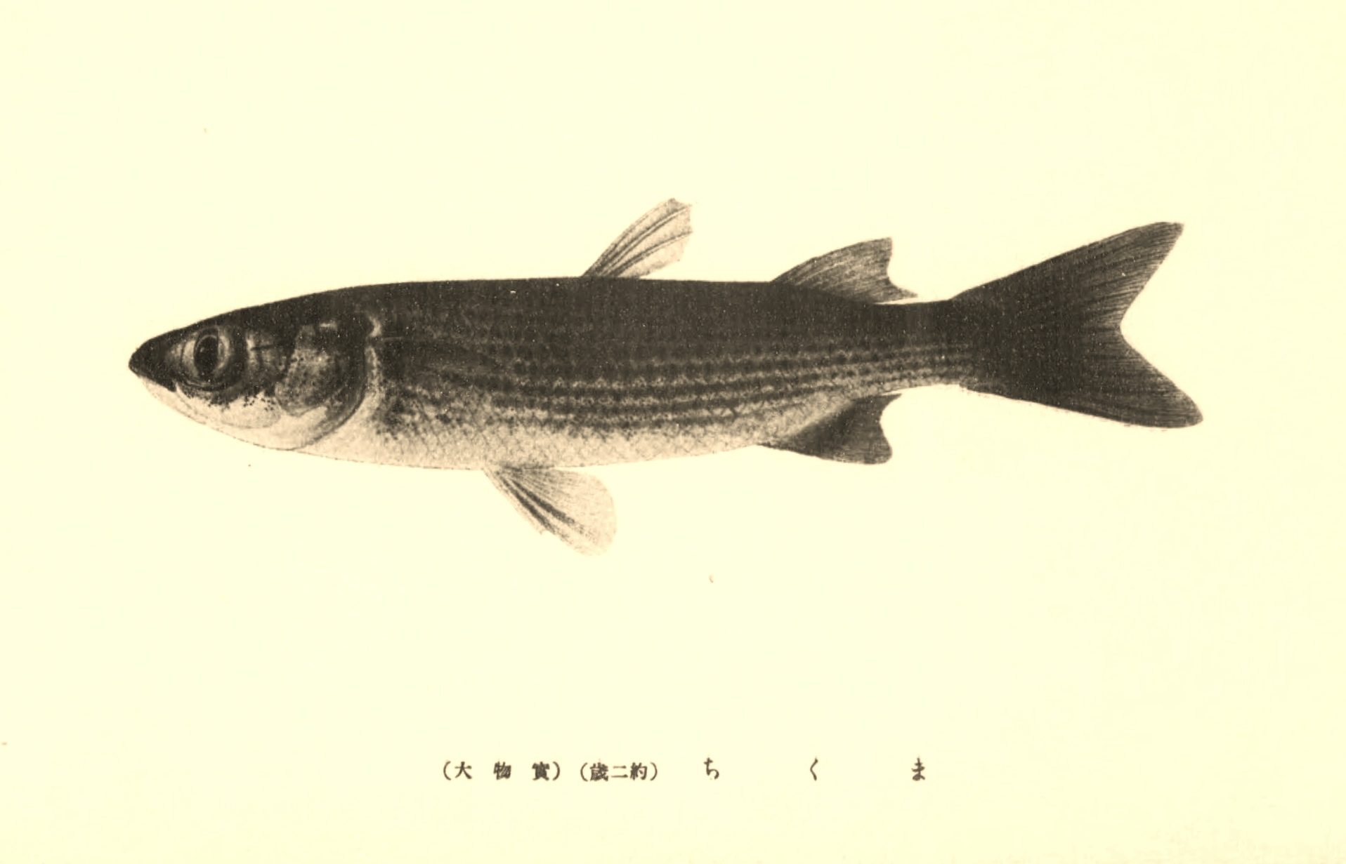 Jono-ike pond research report attached Sketch of Mullet